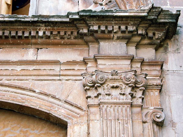 Sudanell, el Segriá, Catalonia. Parish Church of St. Peter. Baroque building (XVIII century) with three naves and square bell tower with octagonal upper body.